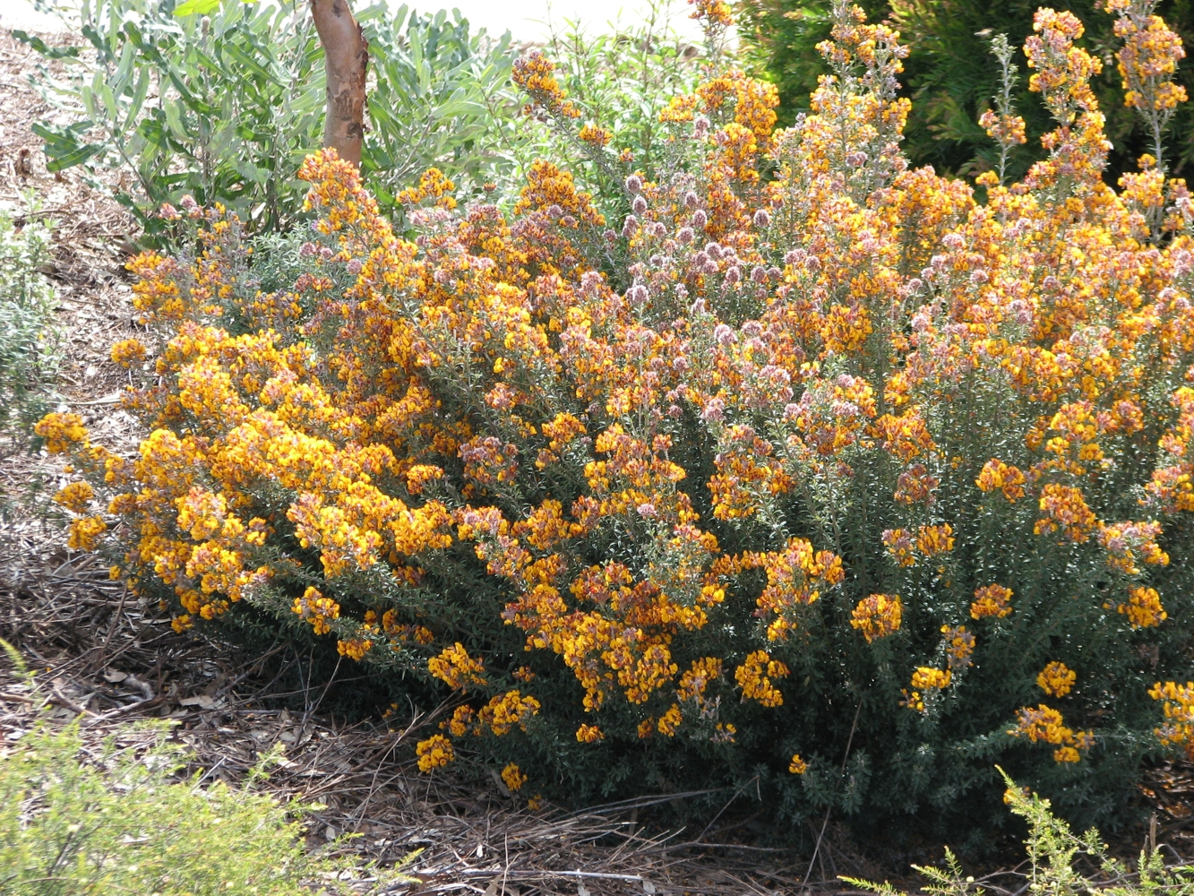 Oxylobium ellipticum (cultivated, labelled), Royal Botanic Gardens Cranbourne, Australia